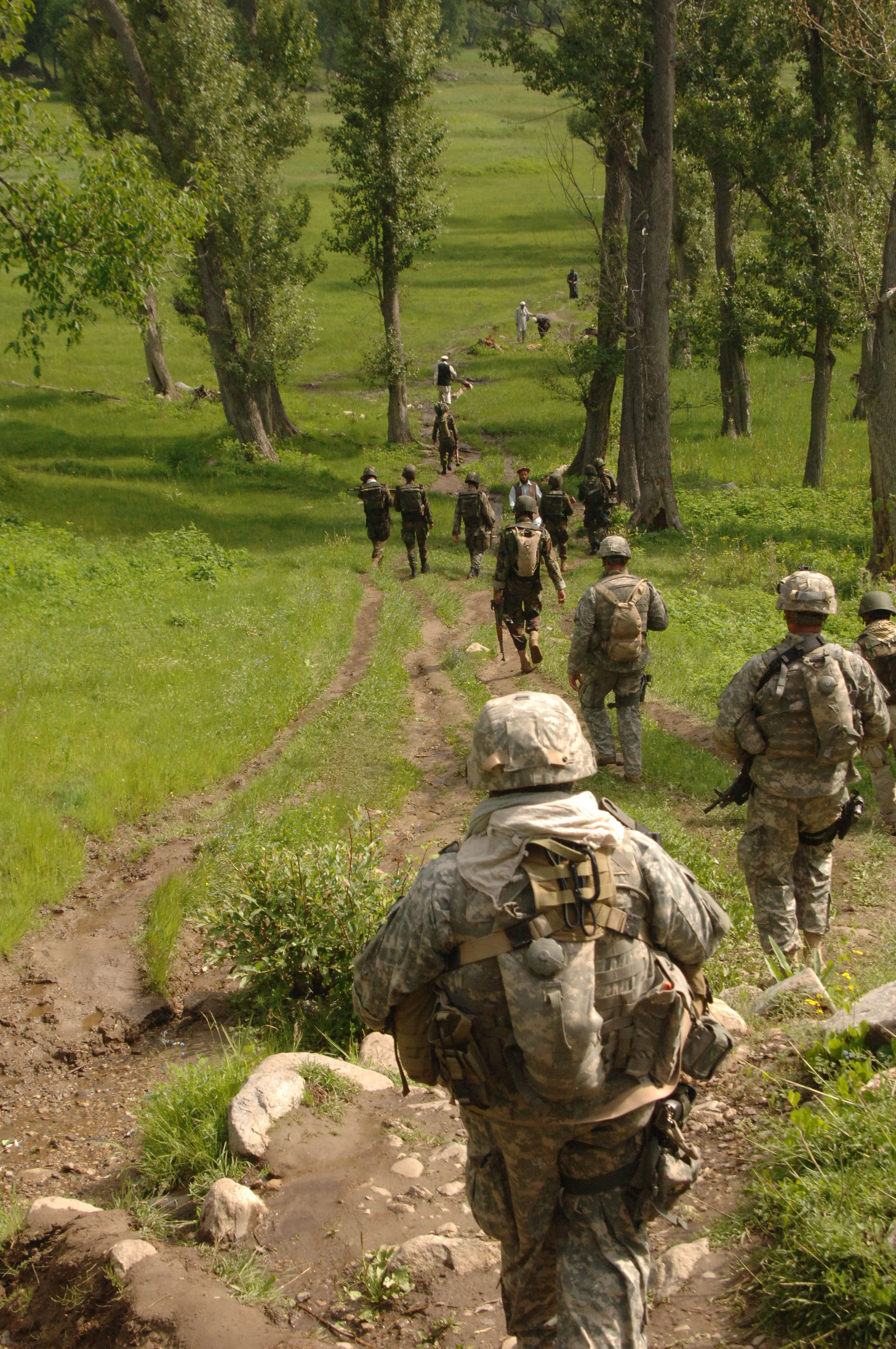 Afghan National Army (ANA) and U.S. Army Soldiers of the Kalagush provincial reconstruction team conduct village assessments in the Nuristan province of Afghanistan June 27, 2007. (U.S. Army photo by Staff Sgt. Isaac A. Graham) [1]